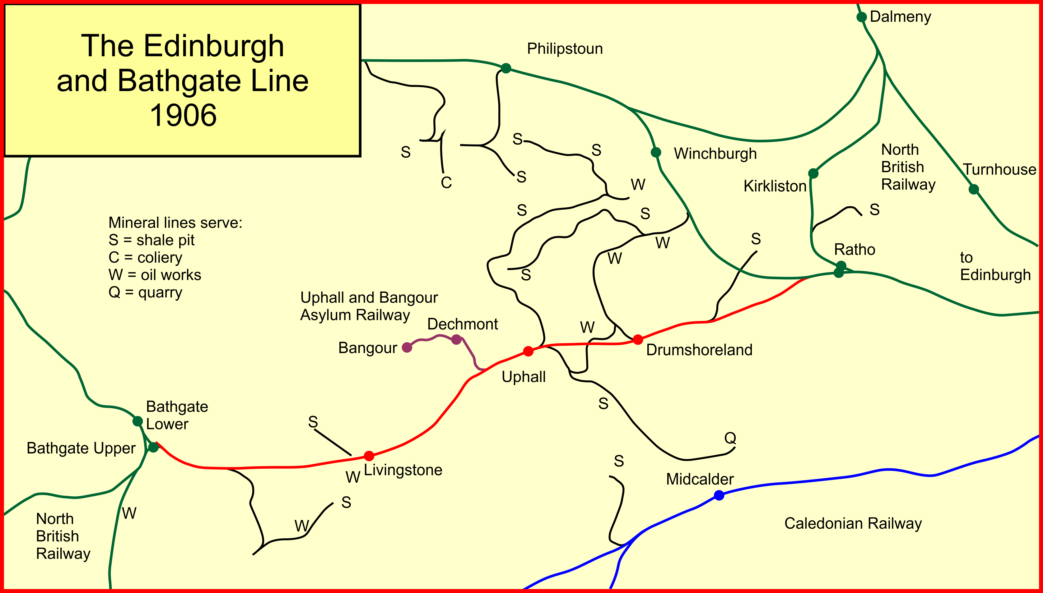 The Edinburgh and Bathgate railway line, Scotland, in 1906